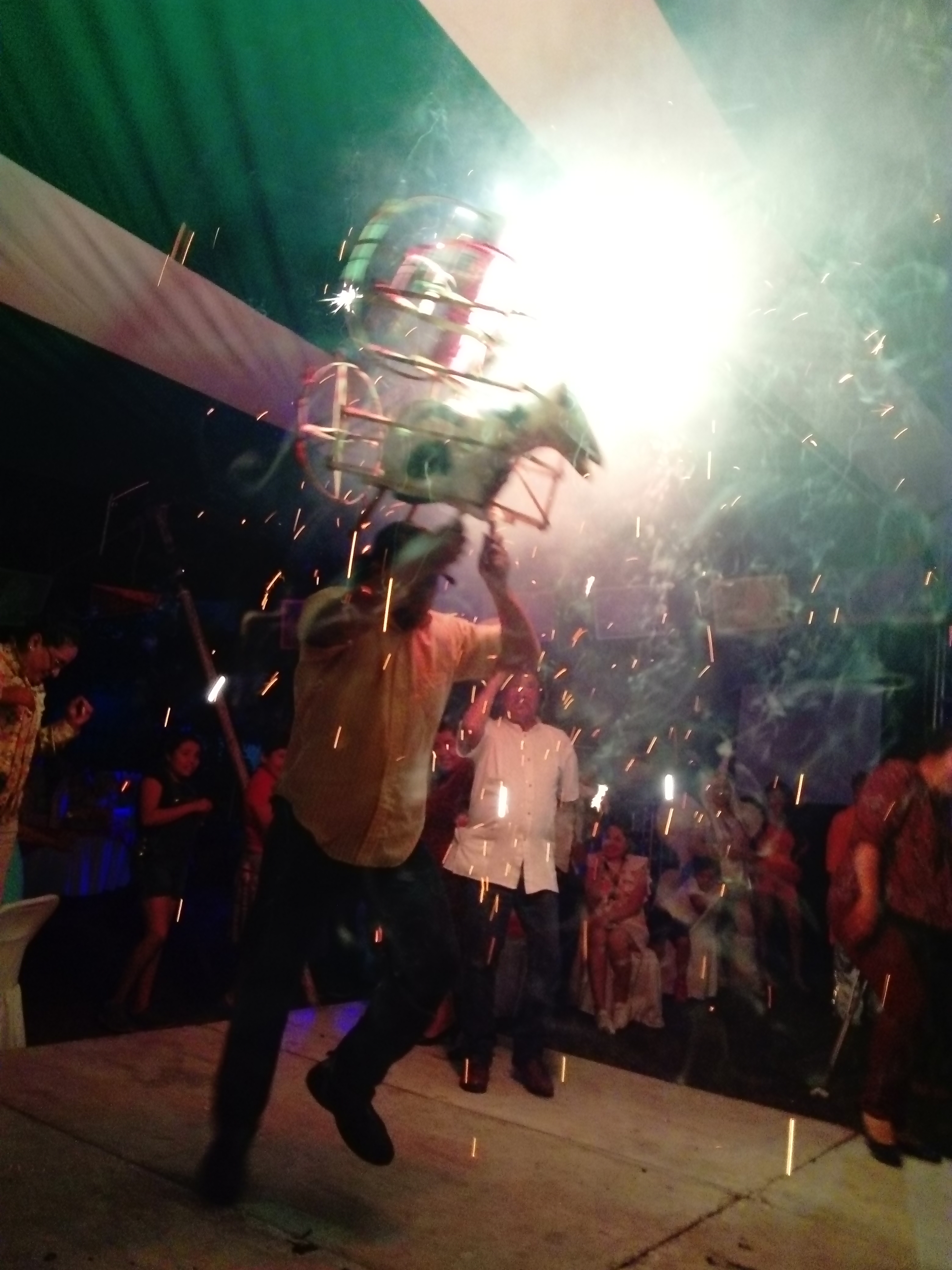 During the patron saint festivities in the Huasteca Hidalguense it is tradition to burn the "toritos" that are artefacts made of wire, colored paper and fireworks. People carry it on their shoulders and pass it on to each person